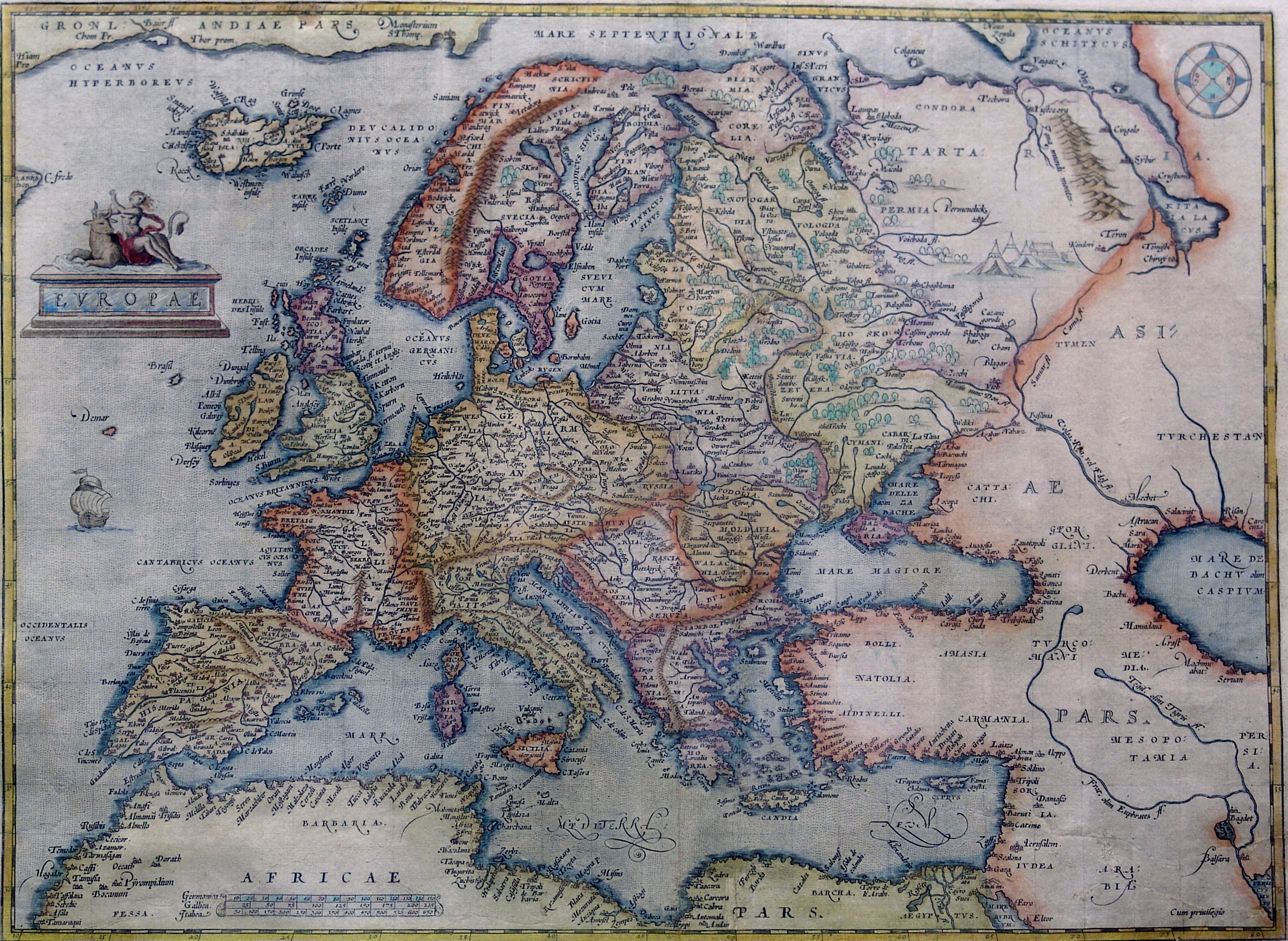 Map of Europe